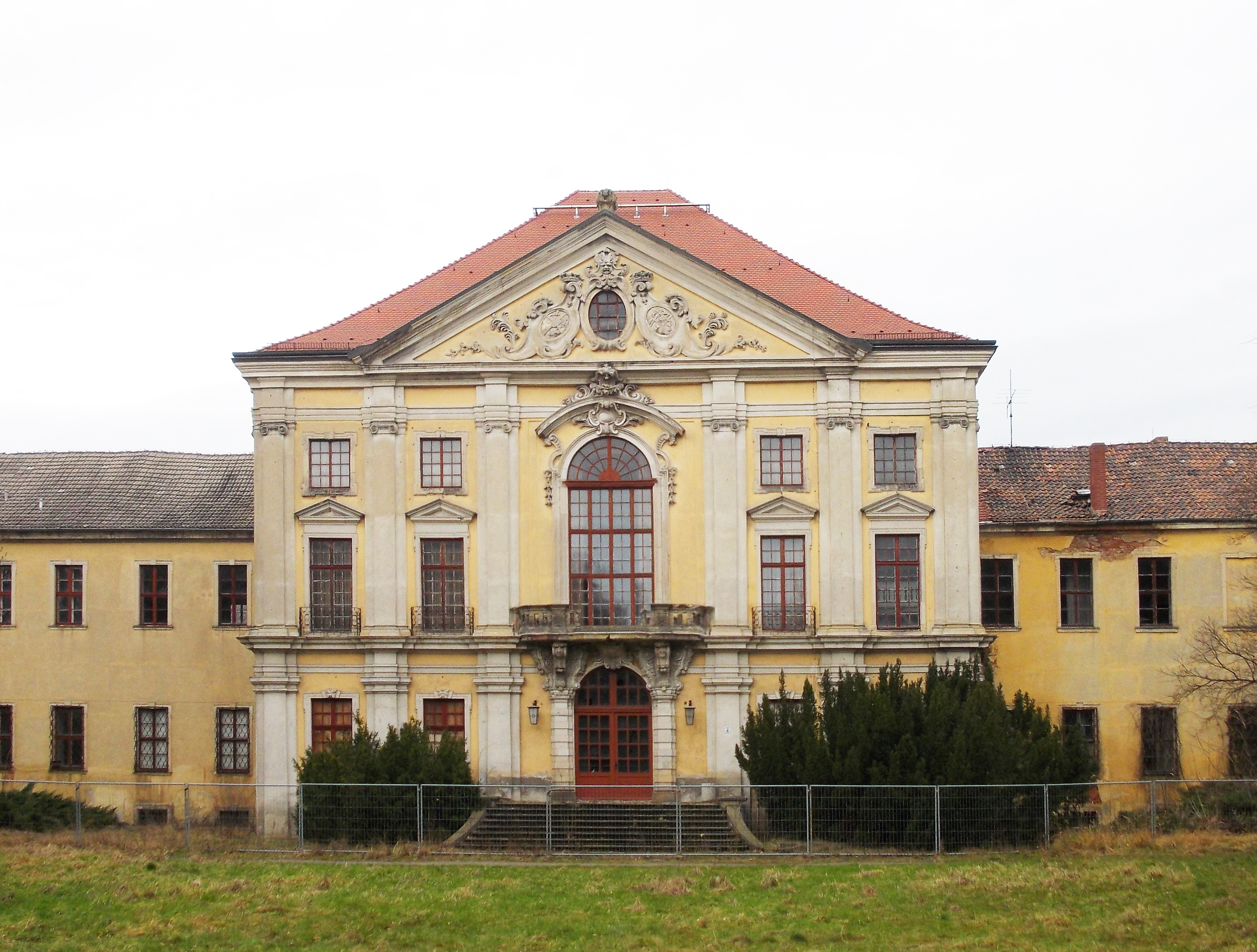 Schönwölkau castle (Nordsachsen district, Saxony)